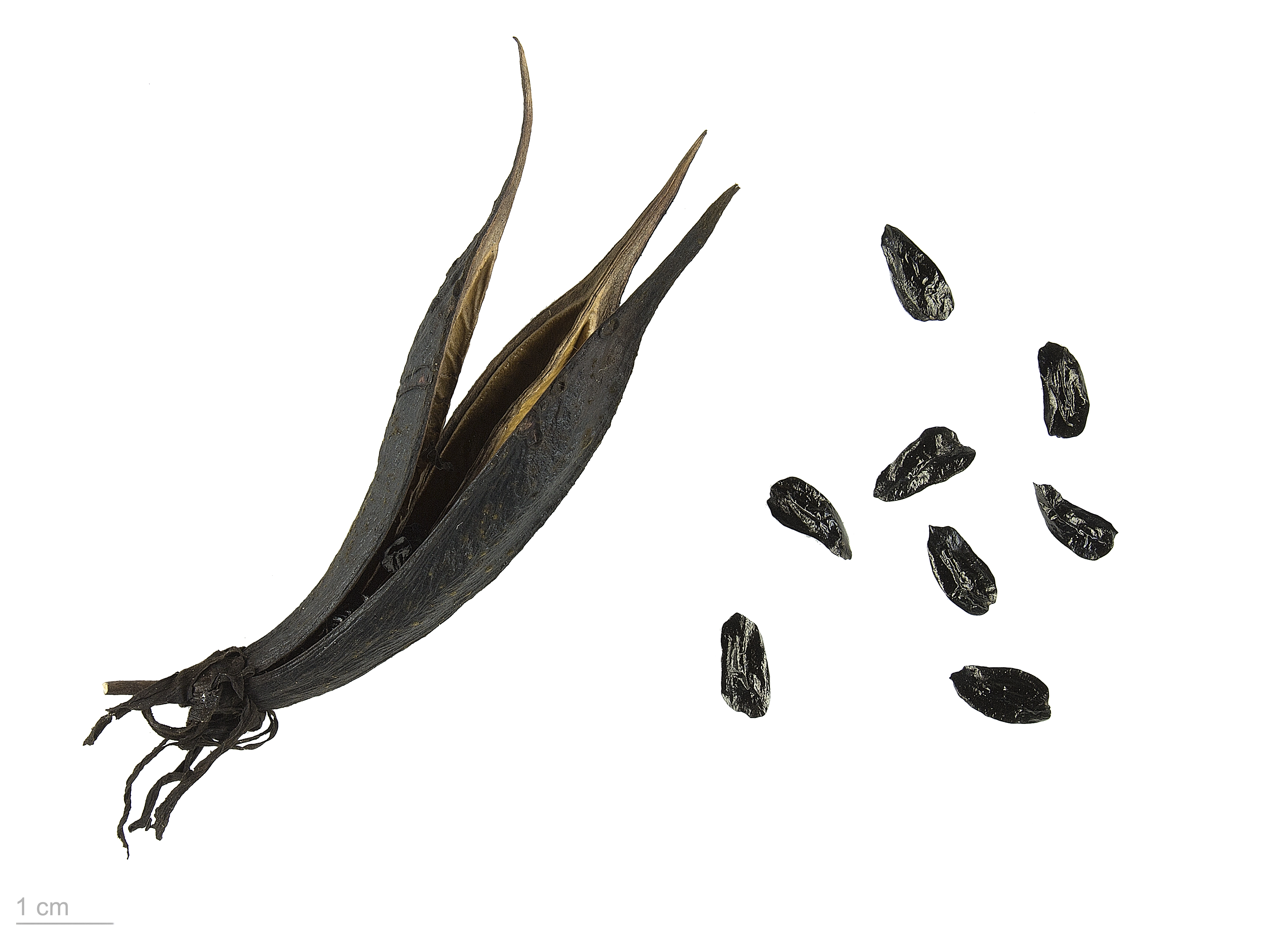 Phormium tenax, New Zealand flax, seeds